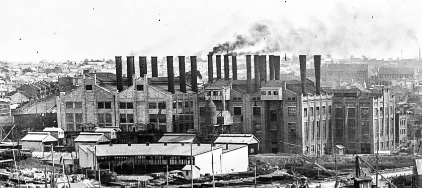 NSWGR White Bay Power Station